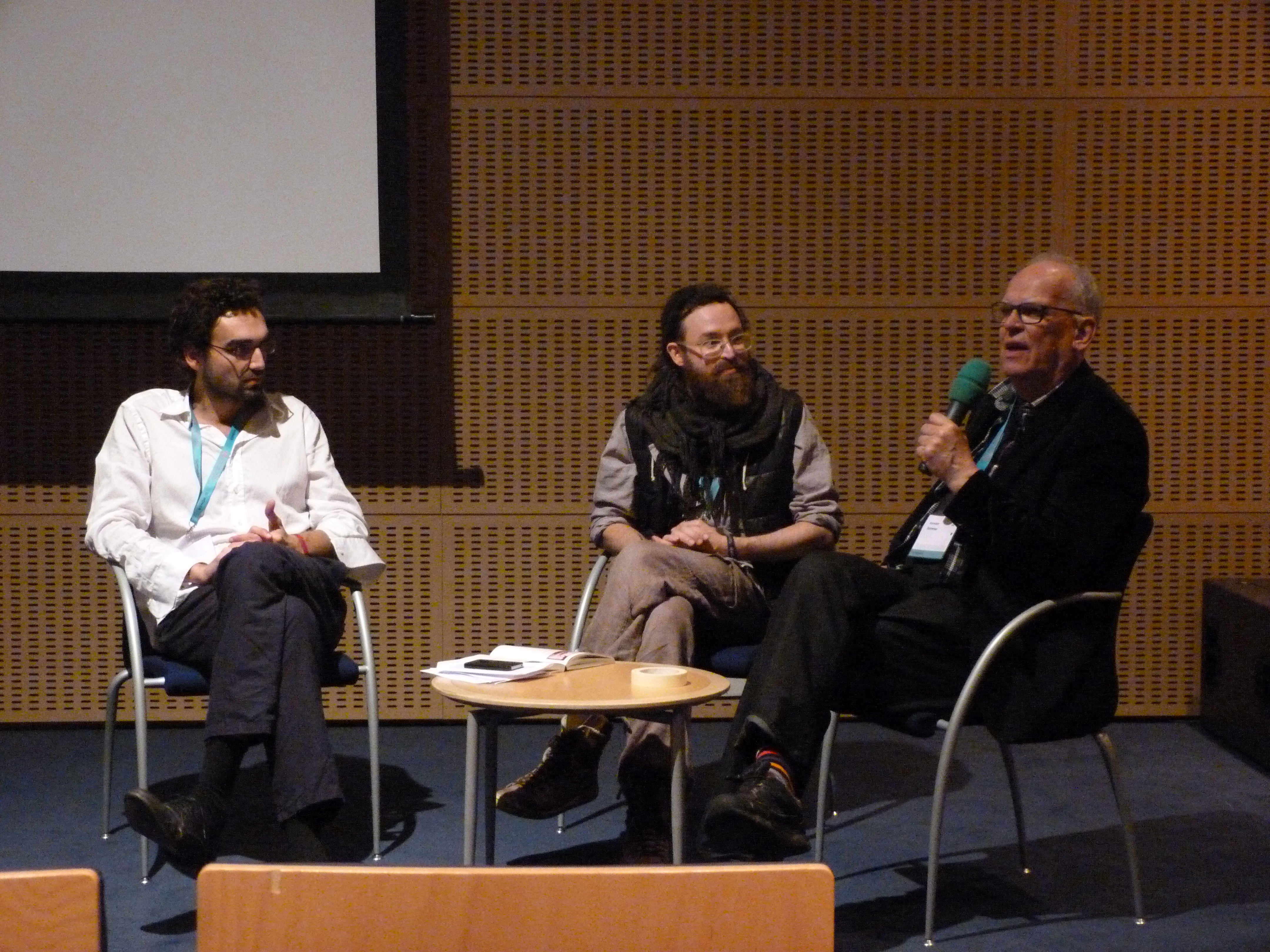 Live on the 22nd of October, 2015. WOMEX 15, Budapest , Hungary. Opening Short Film: The Lost Soul, Tommi Kainulainen, DX Film Festival Highlight: Sumé - The Sound of a Revolution, Inuk Silis Høegh.